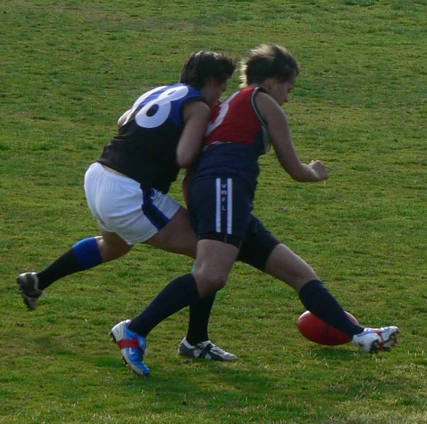 Melbourne University player bumps Darebin Falcons player off the ball in contest for possession over a ball on the ground from the 2007 Victorian Women's Football League Grand Final